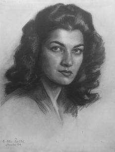 Princess Ashraff al Mulouk from Persia portrait